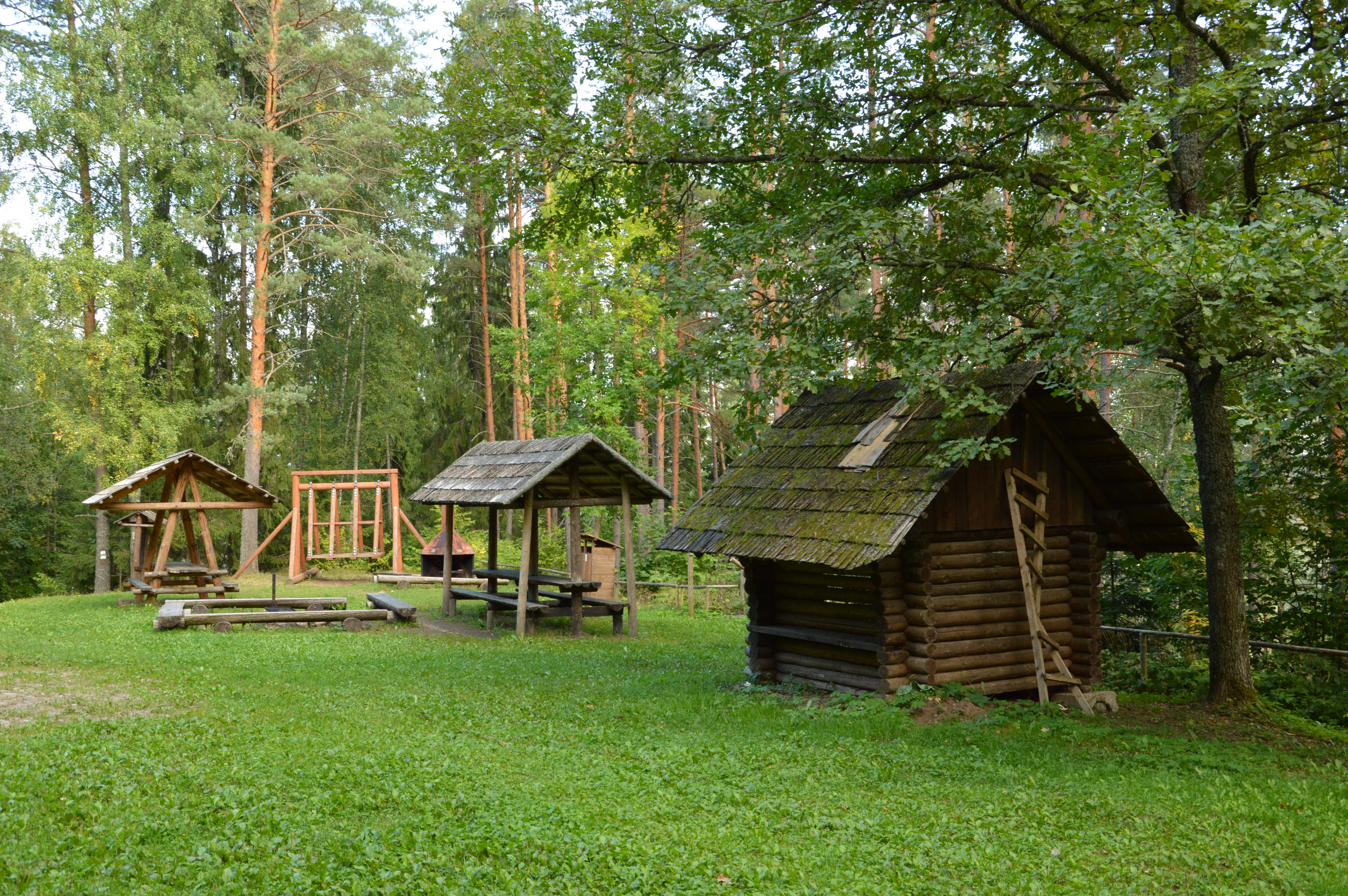 Tellingumäe camping site.